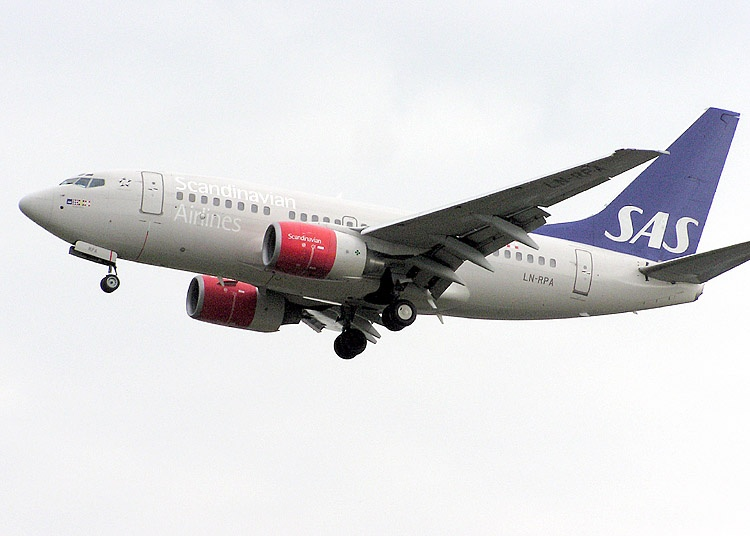 SAS Boeing 737-600 (LN-RPA) landing at London Heathrow Airport.